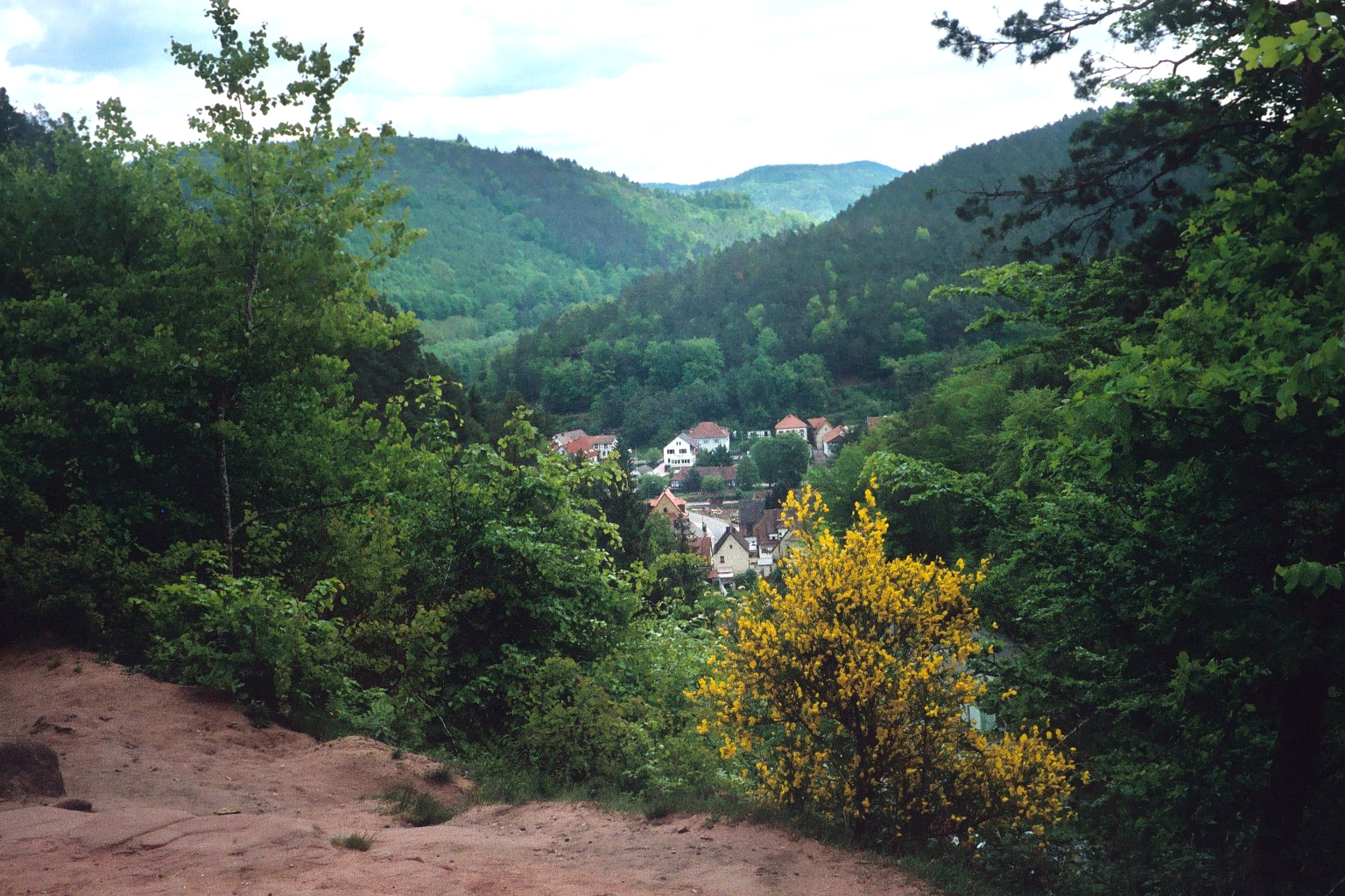 Hinterweidenthal, view from the devils table to the village